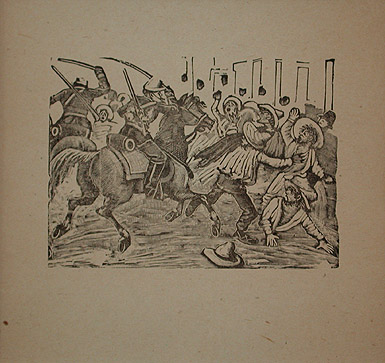 Manifestacion Anti Clerical or (The Street Gazzete: Anti Clerical Manifestation)